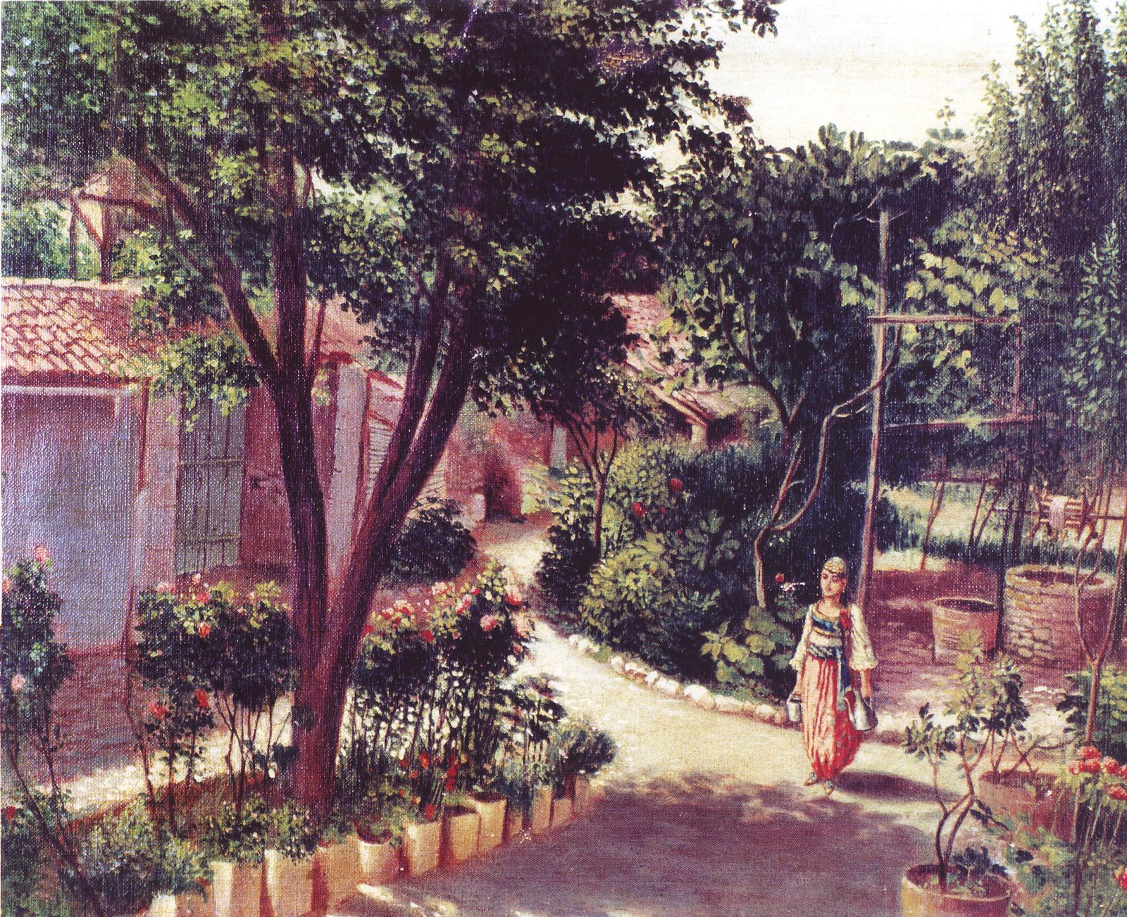 Kolë Idromeno: Courtyard of a Shkodra House, 38x50 cm